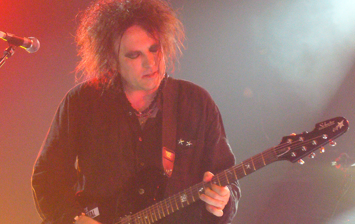 Robert Smith of The Cure live in Singapore Schecter Robert Smith UltraCure